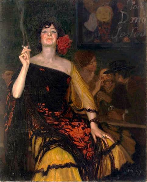 "La Ricitos" Loosely translated: "The Woman of the Little Curls" (of smoke) Brighter version